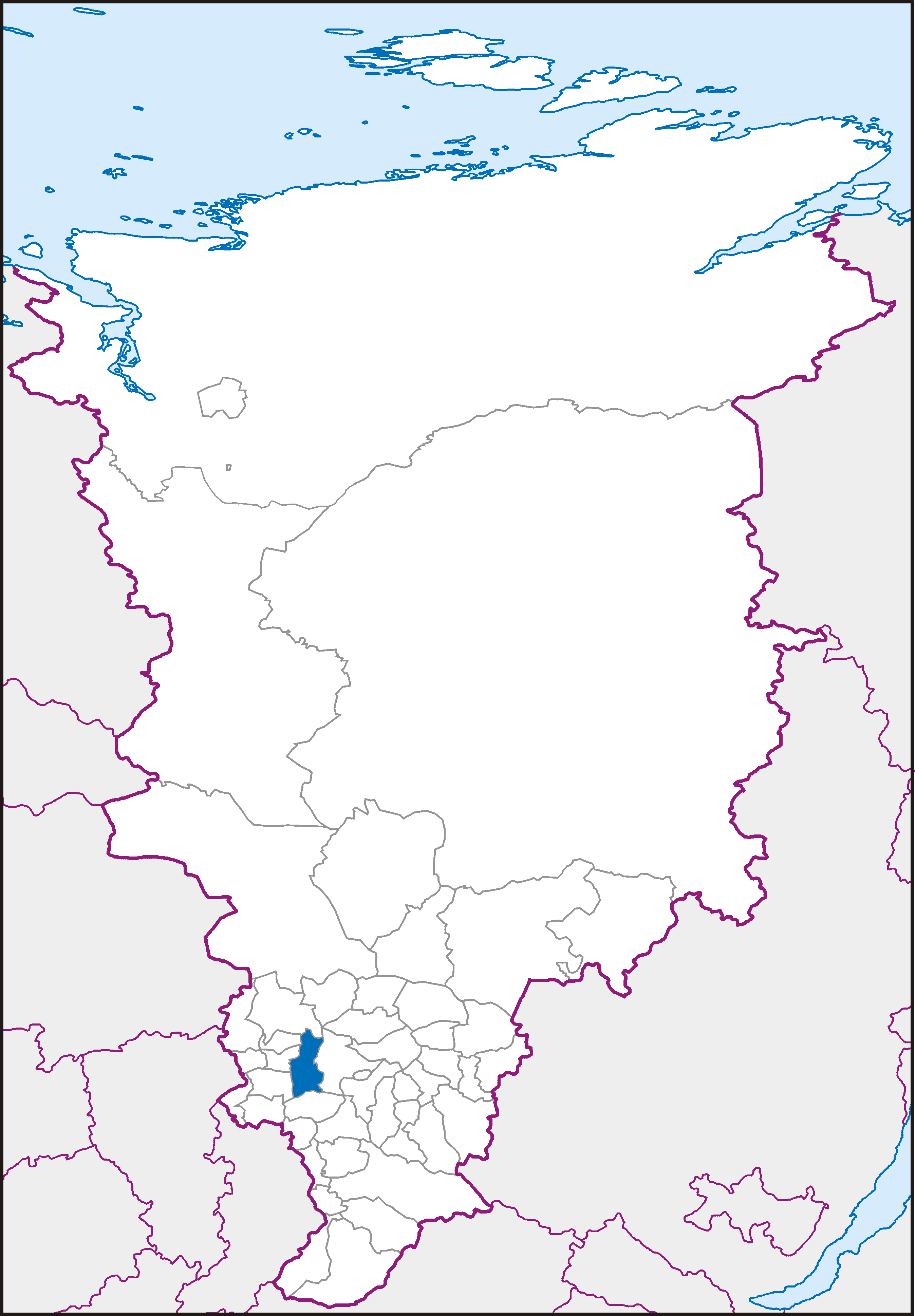 Map of Krasnoyarsk Krai in Albers Equal-Area Conic projection (Central Meridian = 95° E)